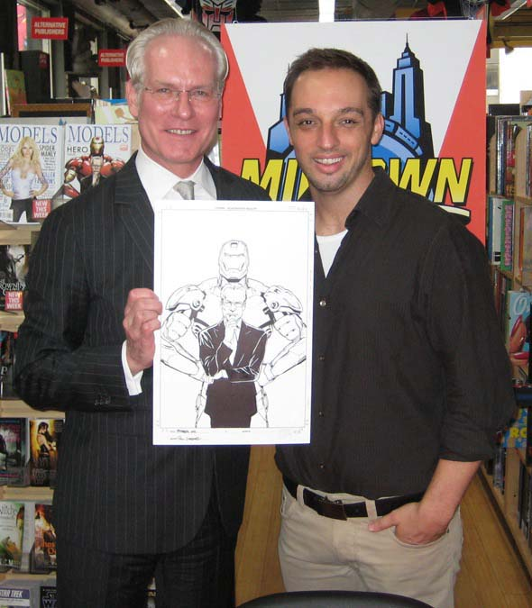 Tim Gunn and Phil Jimenez at Midtown Comics for the signing Models Inc. #1, the first cover of which features Gunn, as illustrated by Jimenez.